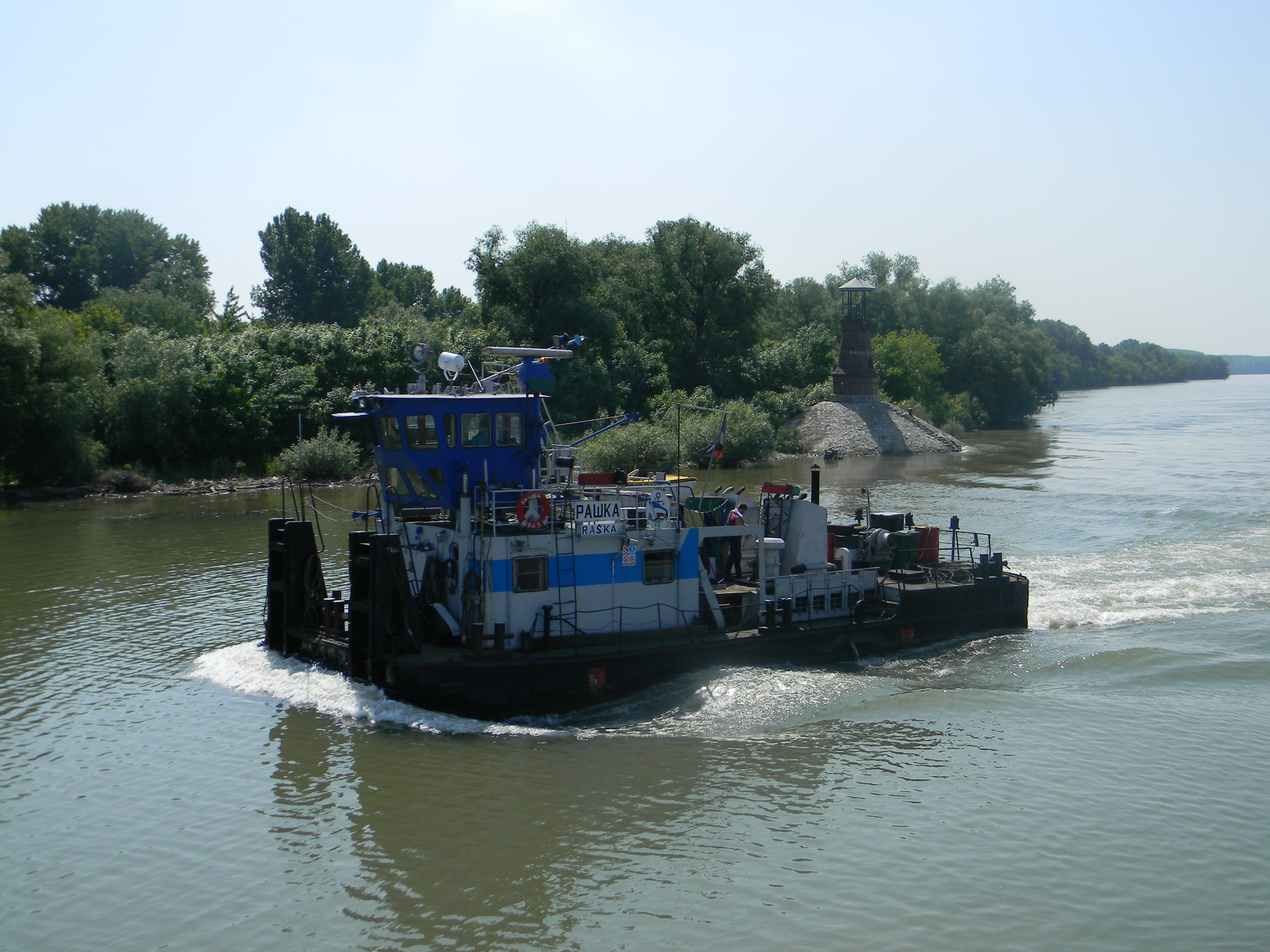 The lighthouses on the river Tamiš in Pančevo